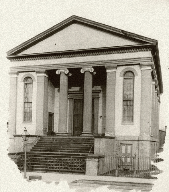 The Jackson Street Temple in Mobile, Alabama, Congregation Sha'arai Shomayim, ca. 1900. Built in 1846, this structure originally housed a congregation of Universalists. It was located on Jackson Street between St. Michael and St. Louis streets. Not popular in Mobile, membership in the Universalists declined and in 1853 the group finally sold the building to the Jewish congregation of Sha'arai Shomayim, and it became known as the Jackson Street Temple. The Jewish group worshiped there until 1907, when they moved to Government Street. This building was demolished soon afterward. The congreagation is now located on Springhill Avenue in the Springhill Avenue Temple.